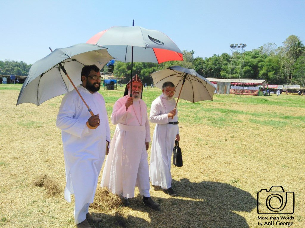 Priest wearing the traditional Kammess and the cassock